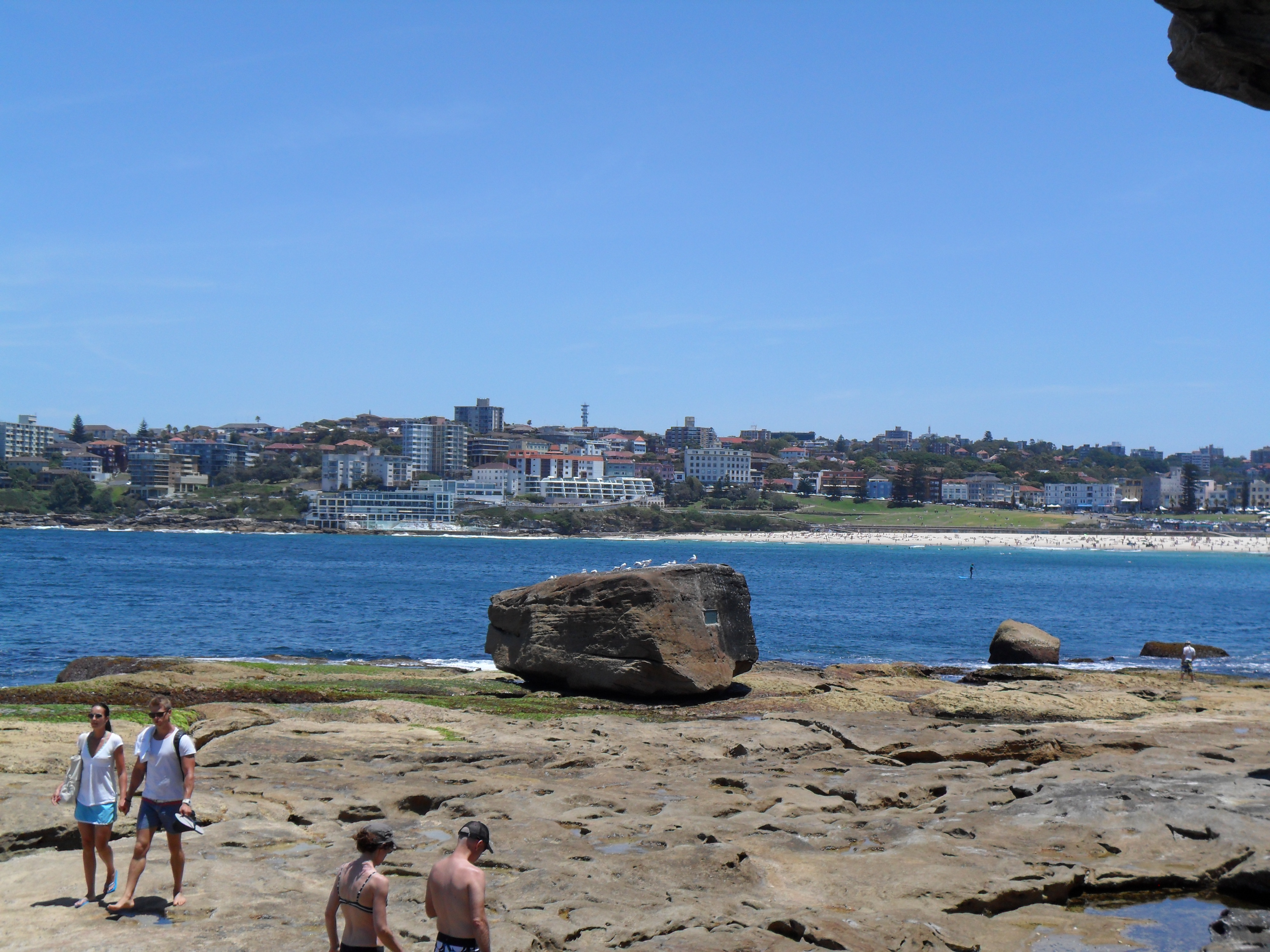 Bondi Rock at North Bondi and Bondi Beach, Sydney